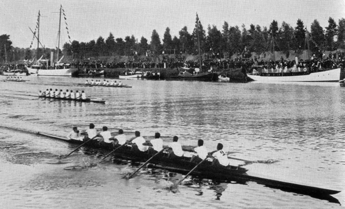 The German eight of Mainzer RV von 1878 in the eight race trailed by Switzerland and Italy